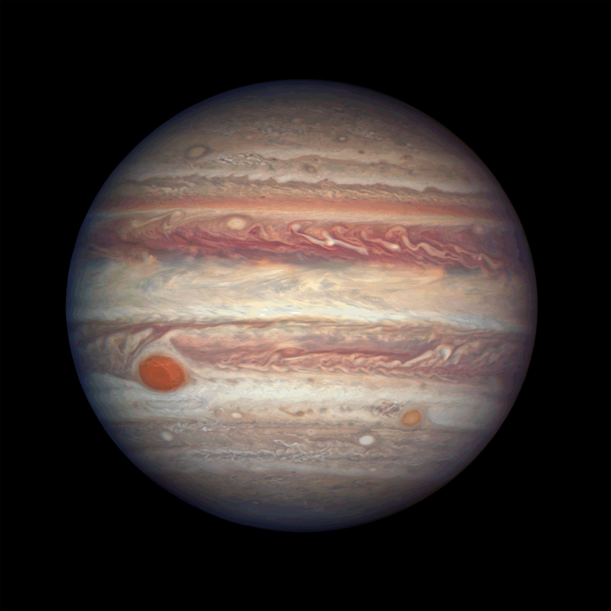 This image of Jupiter was taken when the planet was at a distance of 670 million kilometres from Earth. The NASA/ESA Hubble Space Telescope reveals the intricate, detailed beauty of Jupiter’s clouds as arranged into bands of different latitudes. These bands are produced by air flowing in different directions at various latitudes. Lighter coloured areas, called zones, are high-pressure where the atmosphere rises. Darker low-pressure regions where air falls are called belts. Constantly stormy weather occurs where these opposing east-to-west and west-to-east flows interact. The planet’s trademark, the Great Red Spot, is a long-lived storm roughly the diameter of Earth. Much smaller storms appear as white or brown-coloured ovals. Such storms can last as little as a few hours or stretch on for centuries.